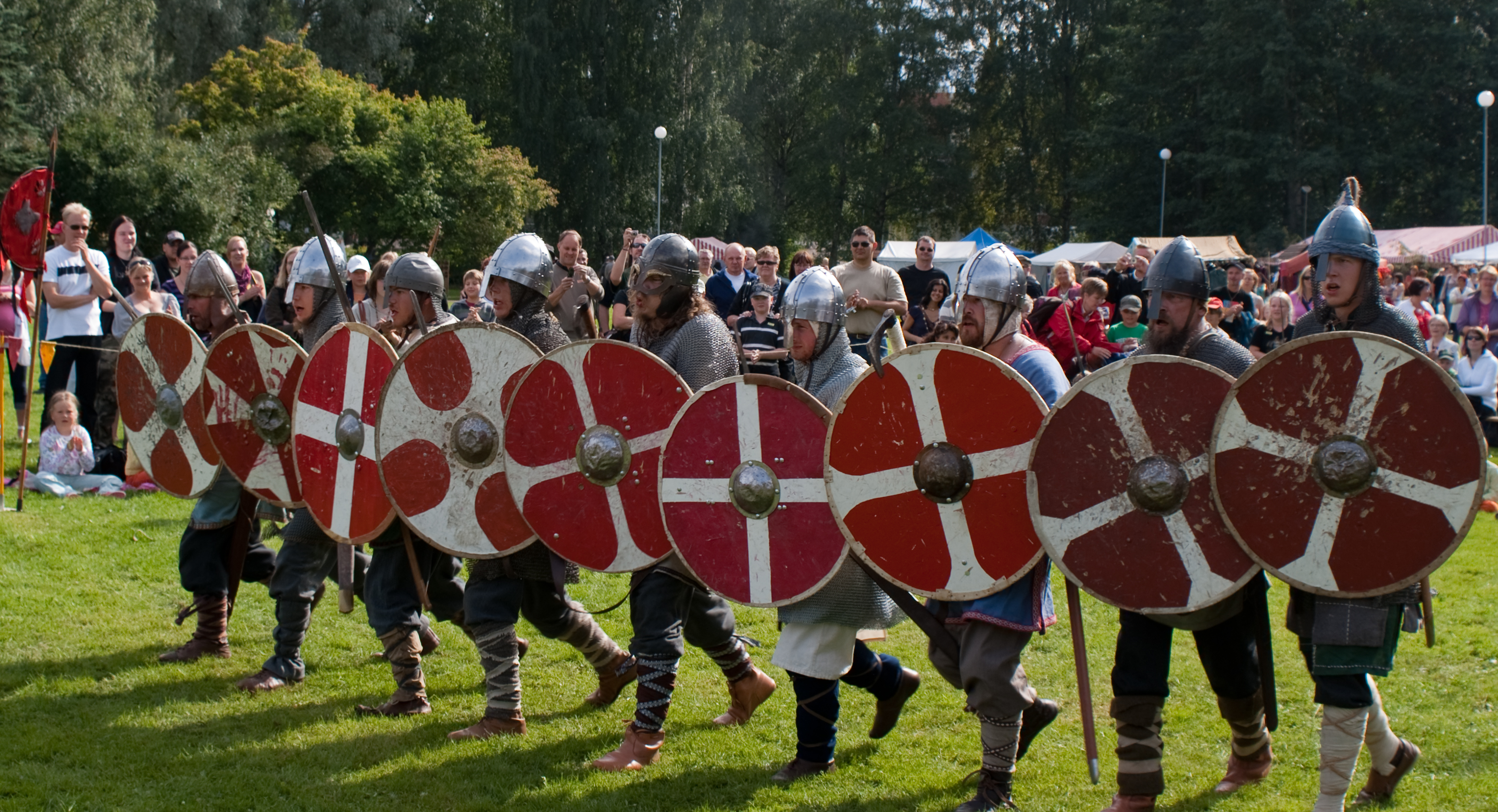 Mediaeval market in Hämeenlinna 2009.